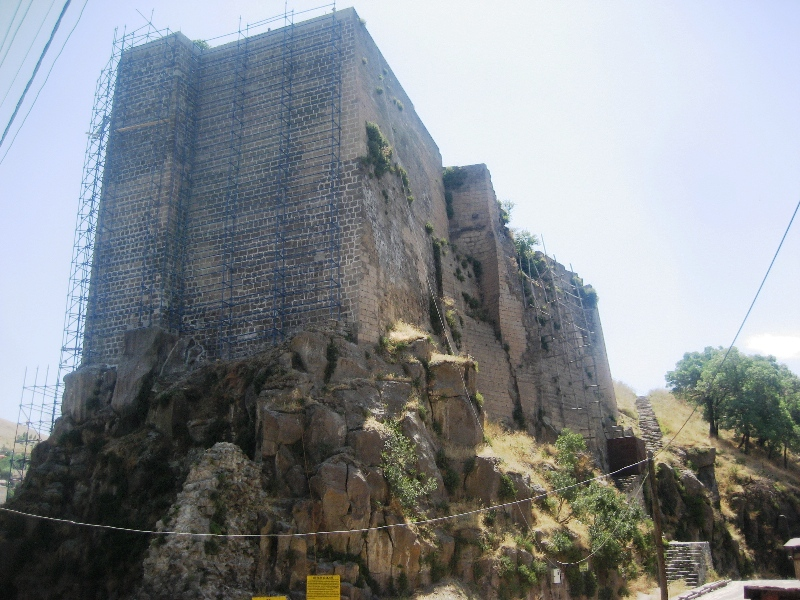 Bitlis Castle, Bitlis